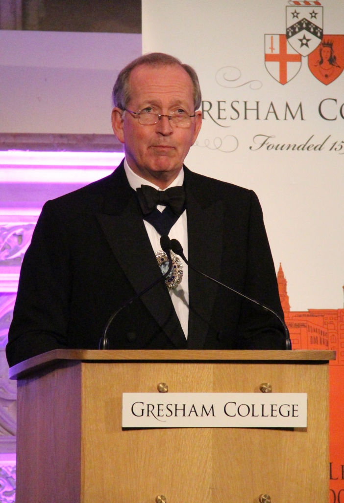 The Lord Mayor of London (2014/15), Alan Yarrow, speaking at a Gresham College event.